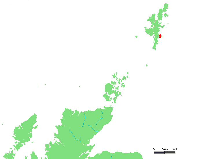 VK Bressay.PNG (Orkney and Shetland islands, UK)